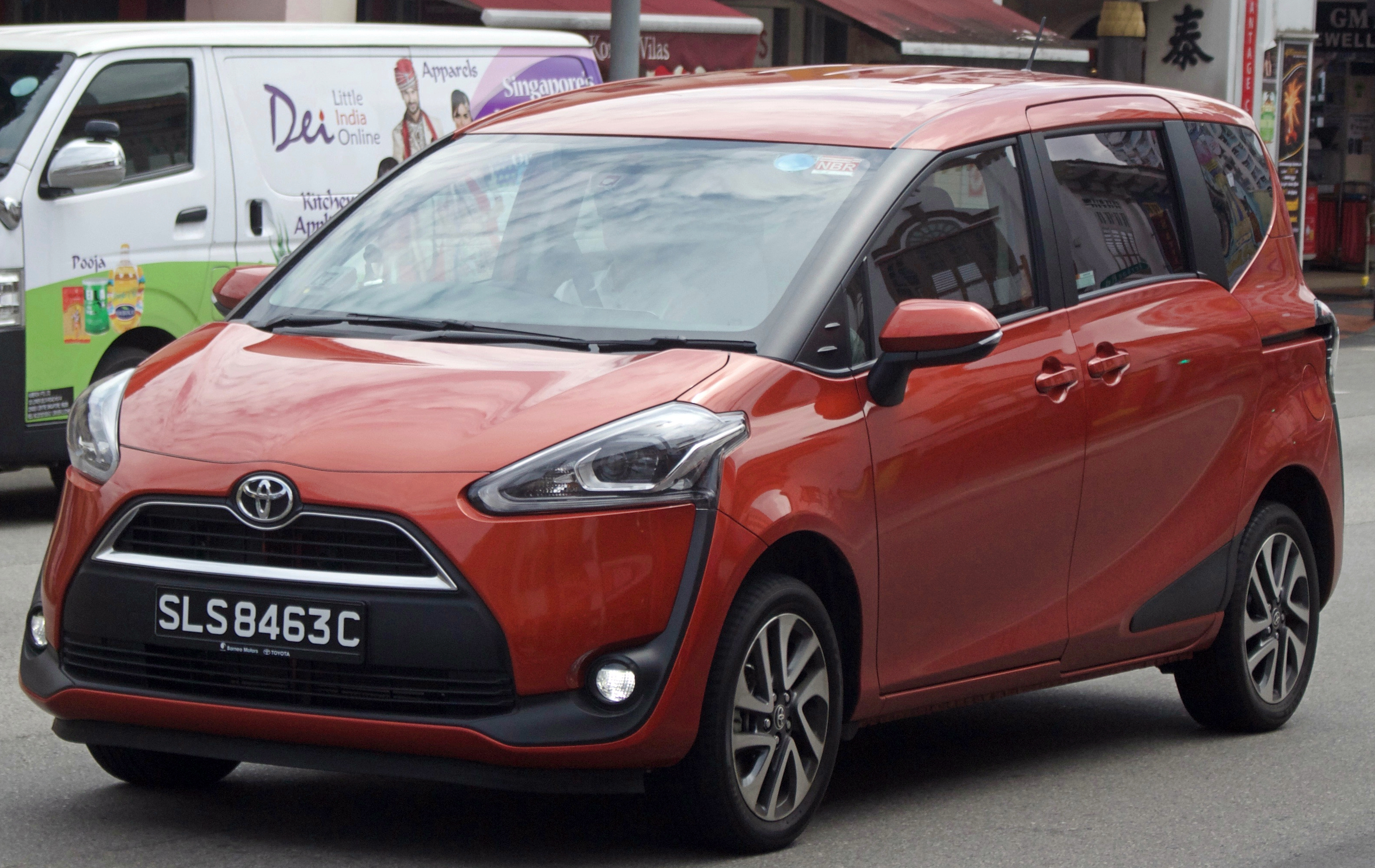 2017 Toyota Sienta (XP150) 1.5V van. Photographed in Singapore.